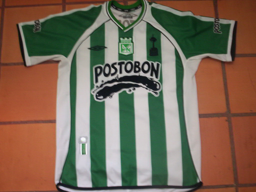 Atlético Nacional 2004 Home.